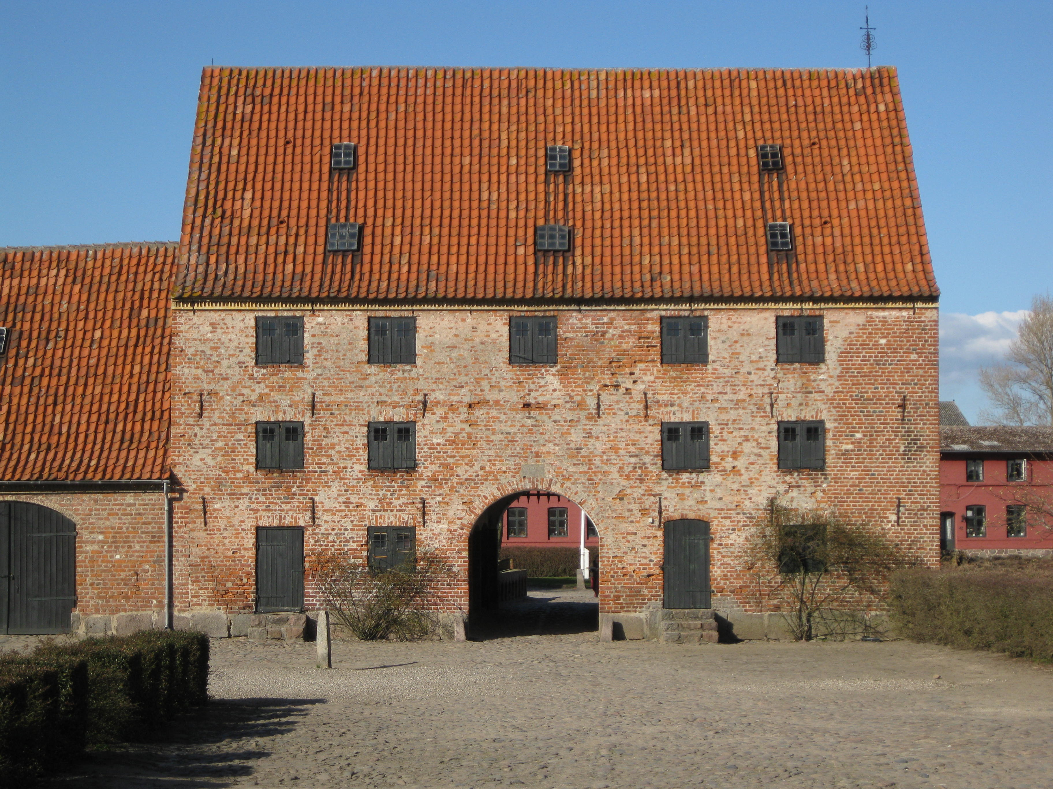 The gatehouse at the castle "Borreby Slot" nearby the town Skælskør. The place is located in West Zealand, Denmark.